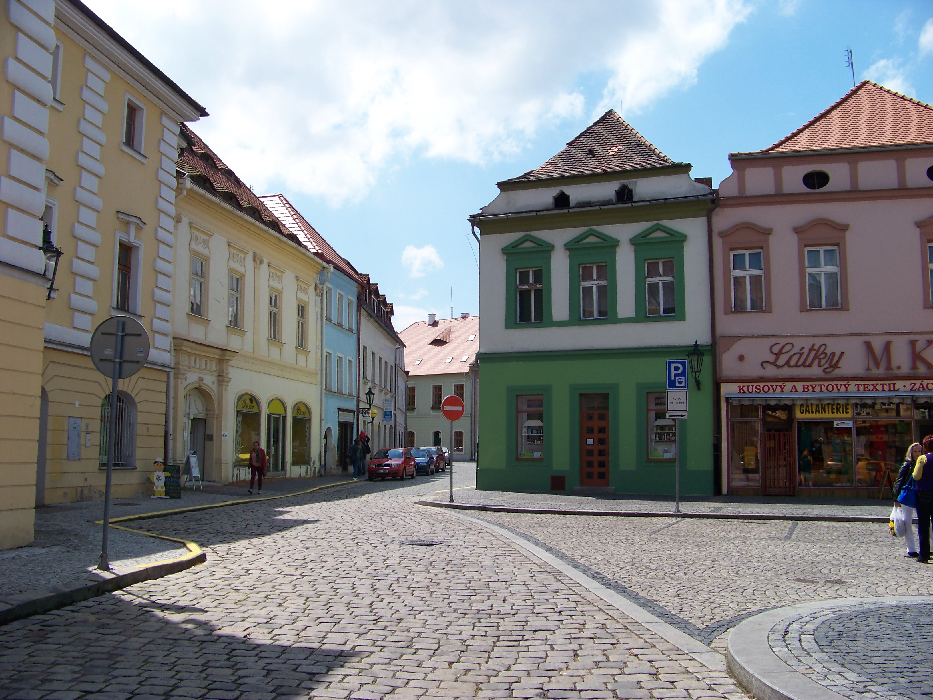 Žatec, Louny District, Ústí nad Labem Region, Czech Republic. Dvořákova street, from Náměstí Svobody.